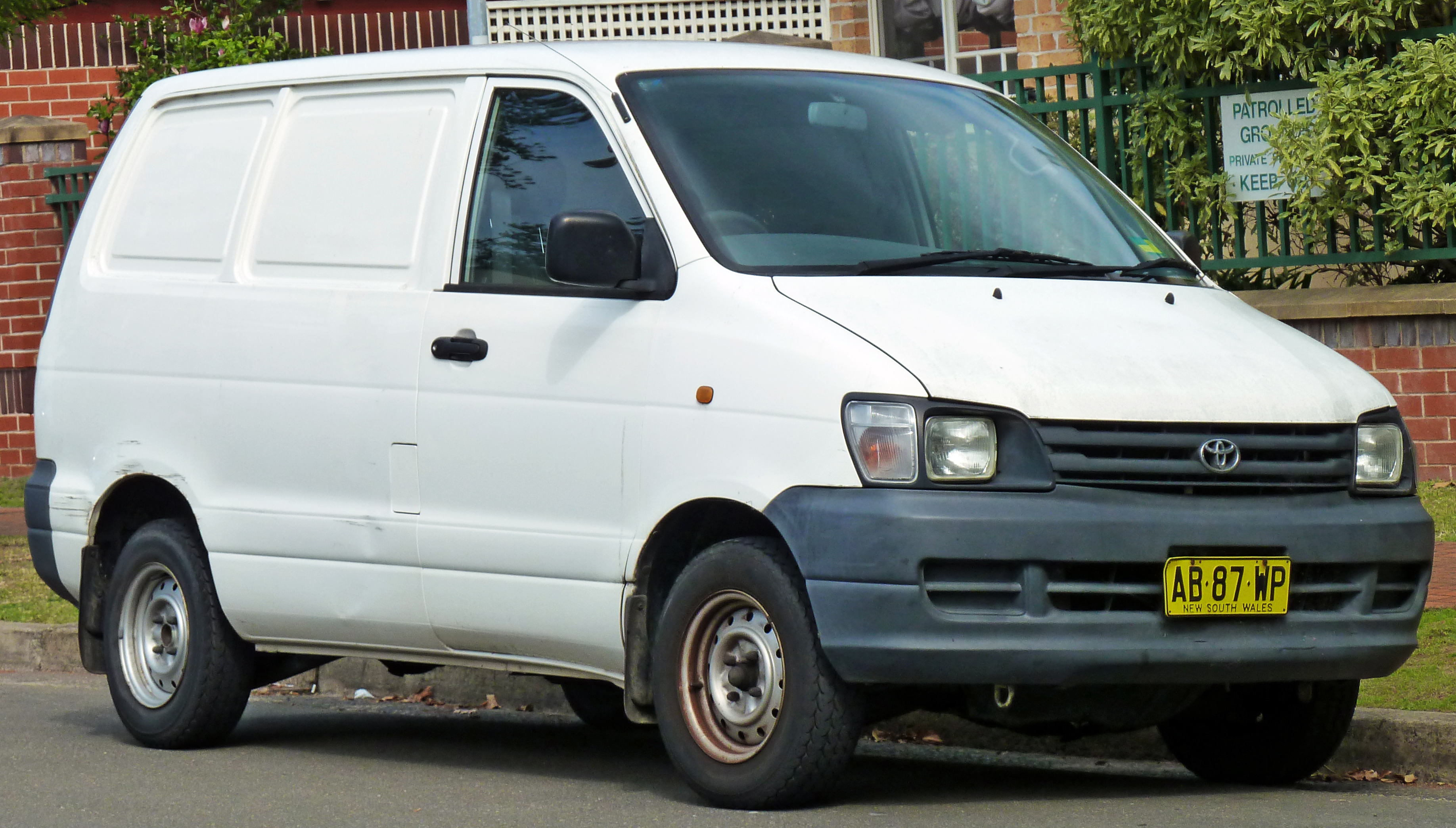 1998 Toyota TownAce (KR42R) van. Photographed in Sandringham, New South Wales, Australia.